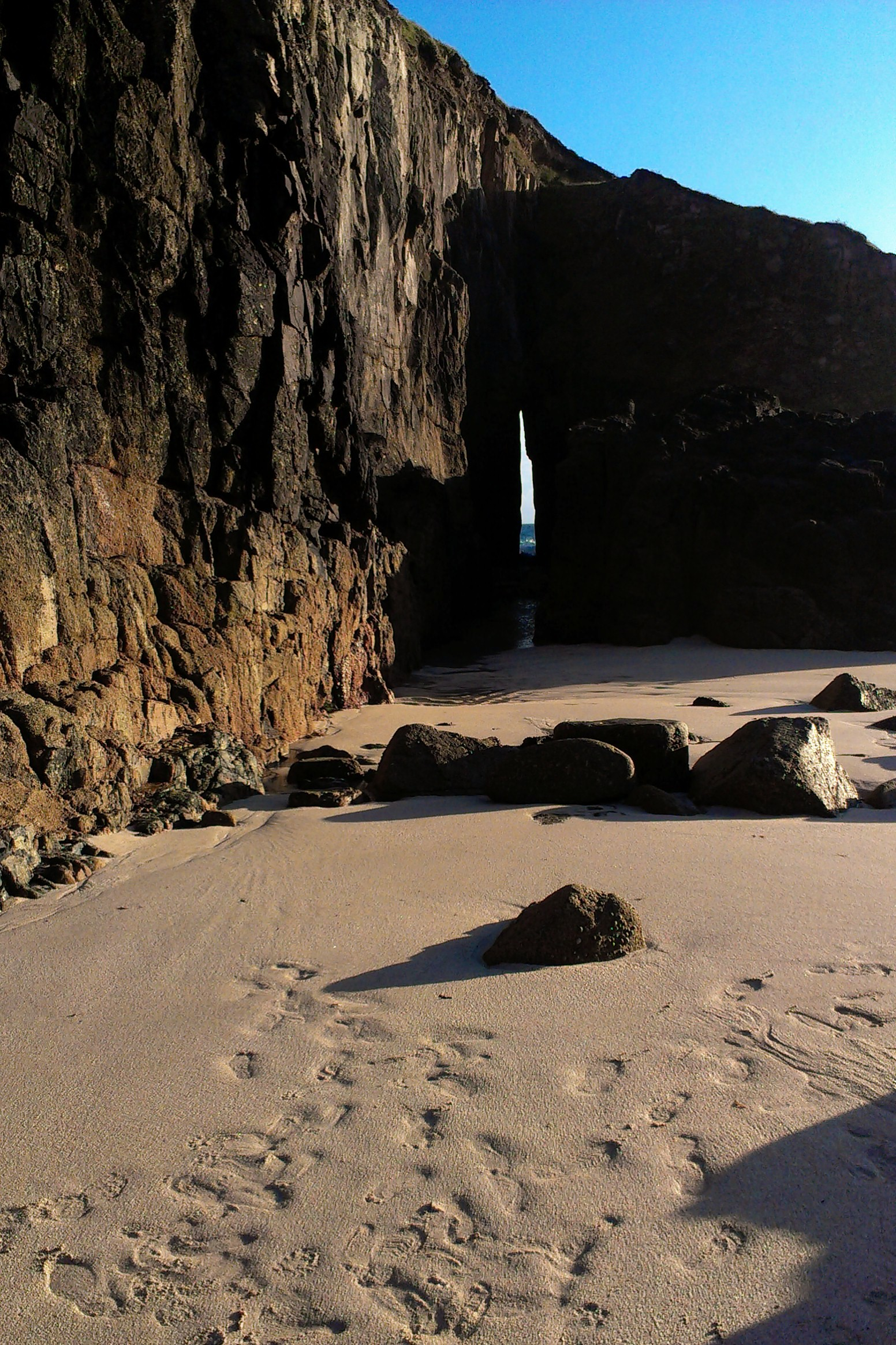 View along the cliff at the southern edge of Nanjizal beach, towards the Zawn Pyg ('Song of the sea') rock arch. The Atlantic sea can be seen through the arch.